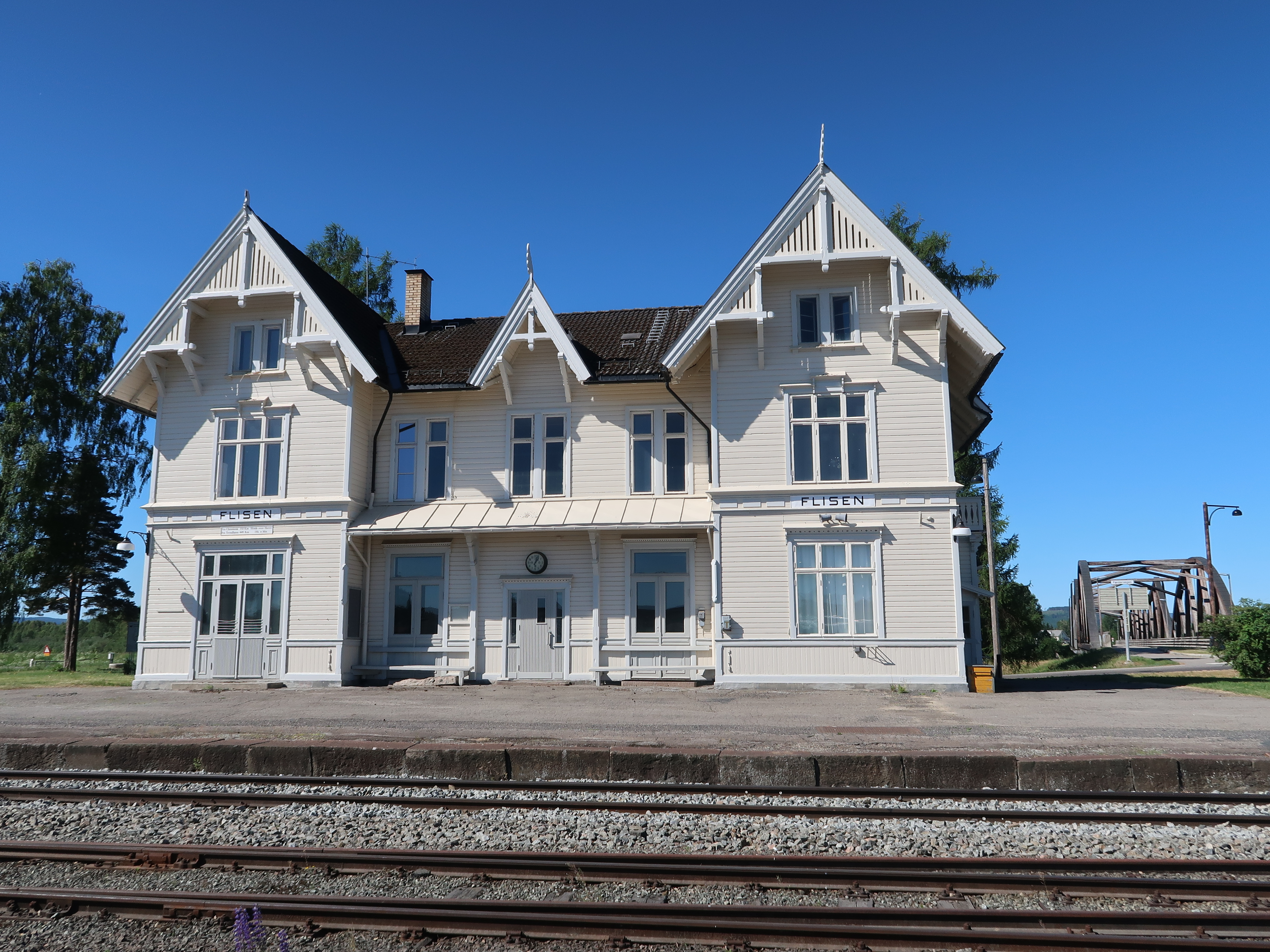 Flisa Station